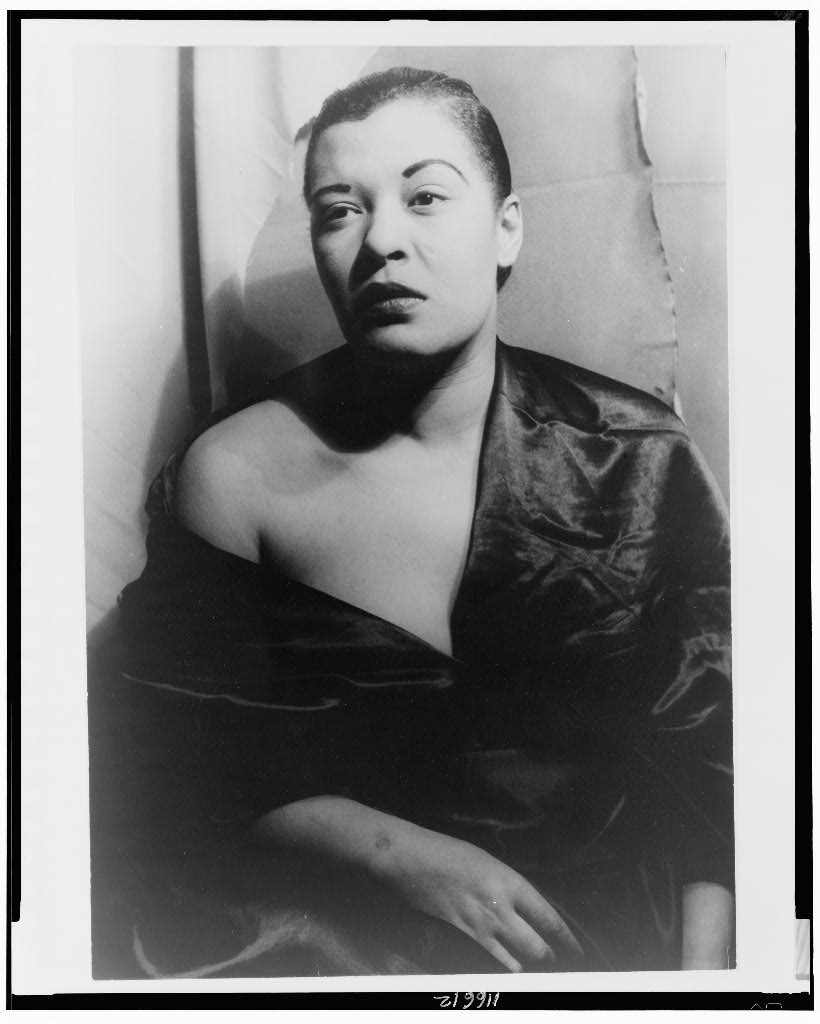 Billie Holiday, 23 March 1949